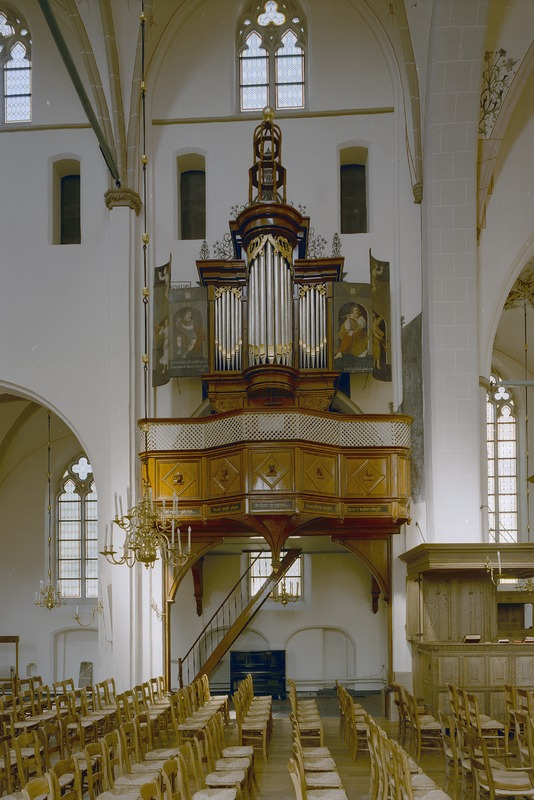 Slegel organ St. Andrew church Hattem